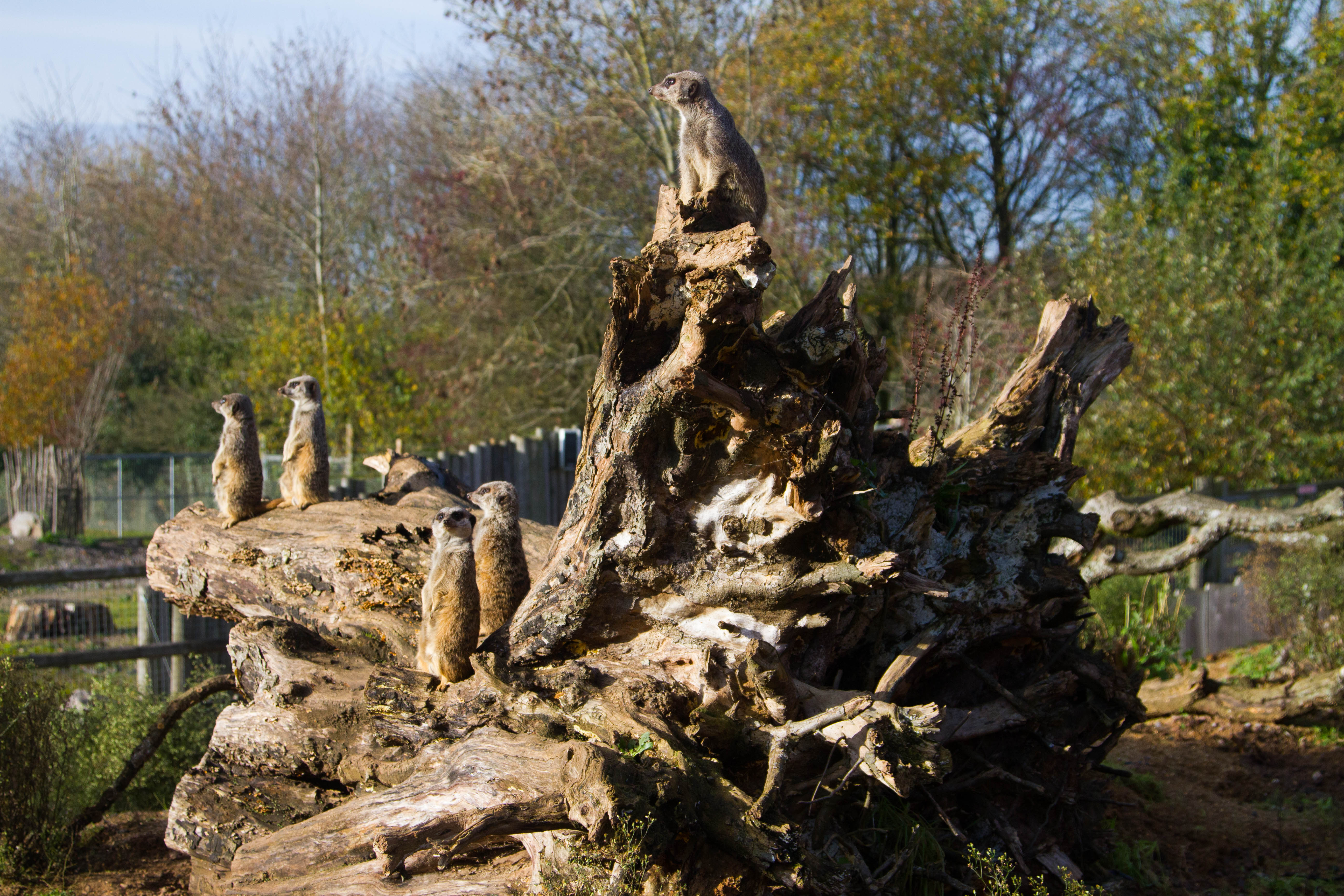 Meerkats exhibit at Marwell Zoo, Hampshire, England